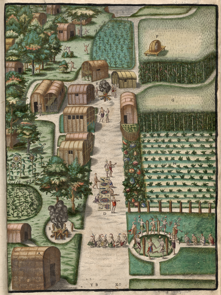 Hand-colored illustration of Theodor de Bry's engraved illustration of the Native American village of Secoton, which accompanied the text of Thomas Hariot's book of 1588 entitled "A Briefe and True Report of the New Found Land of Virginia."